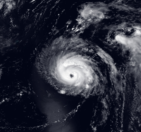 Image of Hurricane Gustav of the 1990 Atlantic hurricane season on 30 August 1990